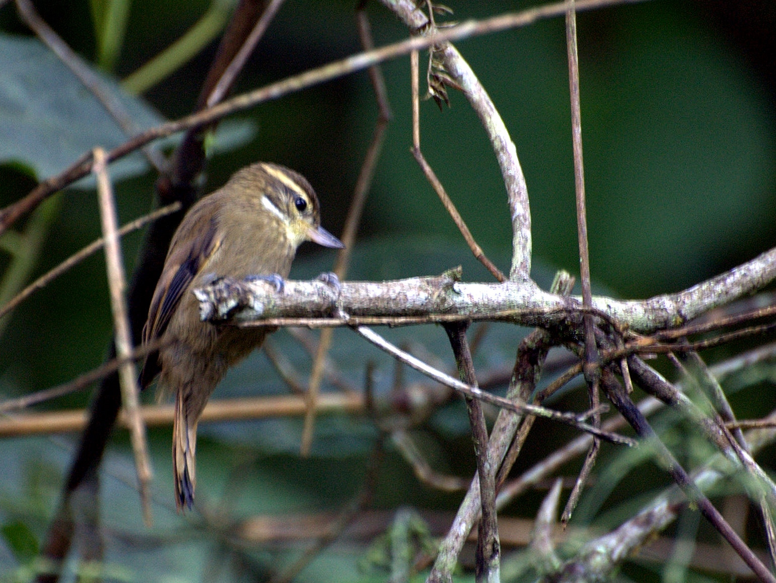 Plain xenops, Rodovia Empei Hiraide SP-139, próximo à cidade de Registro-SP